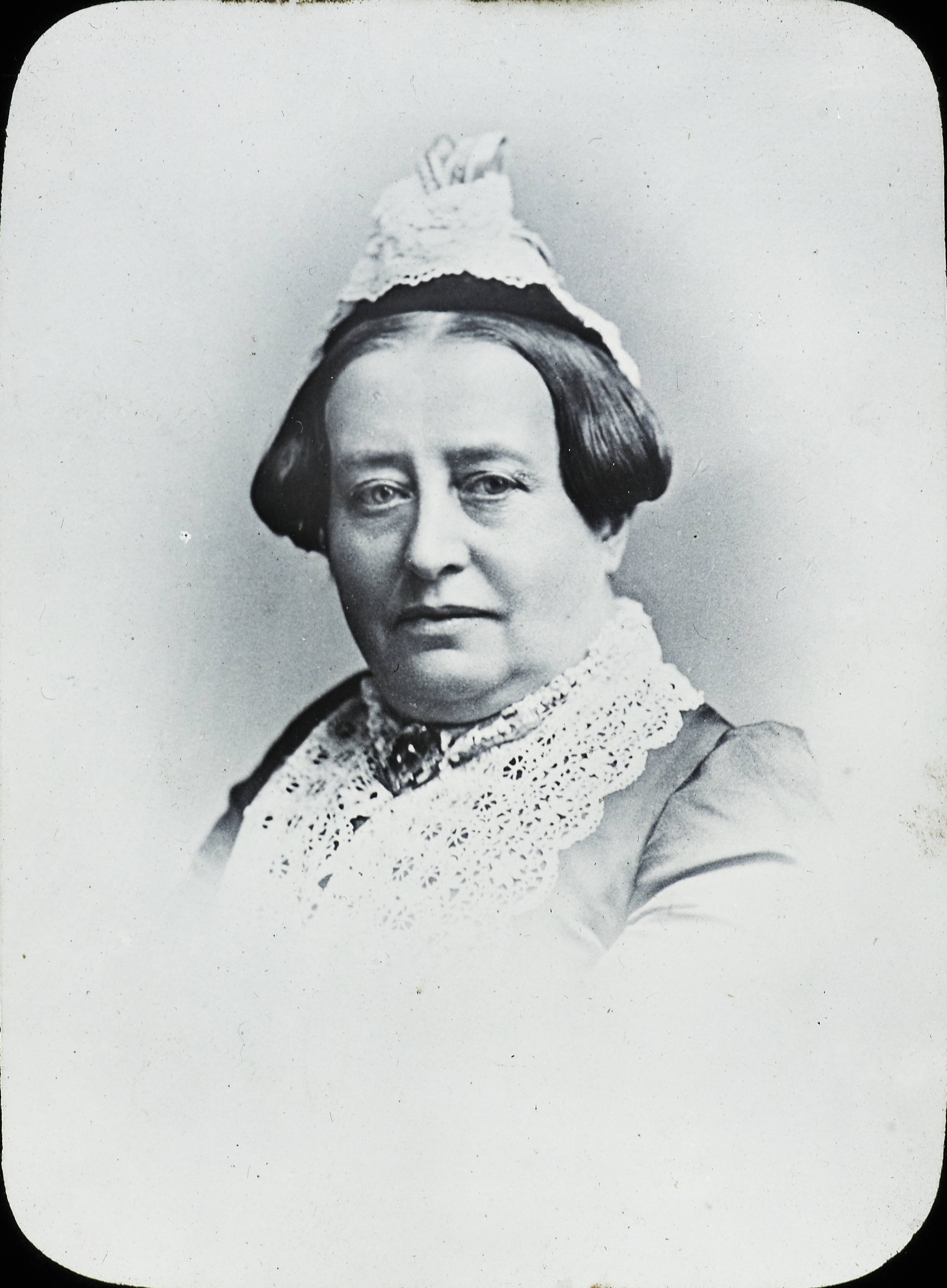 Fanny Grattan Guinness, ca. 1890 Black and white lantern slide showing a portrait of Fanny Emma Grattan Guinness (nA(c)e Fitzgerald, 1831-1898), the wife of Irish protestant evangelist, Henry Grattan Guinness (1935-1910). With her husband, Fanny helped to found the East London Missionary Training Institute, which was to evolve into Regions Beyond Missionary Union in 1899. This slide comes from a collection generated by missionaries working for the Congo Balolo Mission, a mission begun in 1889 under the supervision of the East London Training Institute for Home and Foreign Missions that developed into the interdenominational evangelical mission, Regions Beyond Missionary Union after 1900. Photographer: Unknown Subject (personal name): Guinness, H Grattan Mrs., 1831-1898 Filename: IMP-CSCNWW33-OS9-22.tif Coverage date: 1888/1898 Subject (unesco): Missionary work Part of collection: International Mission Photography Archive, ca.1860-ca.1960 Part of subcollection: Photographs from the Centre for the Study of World Christianity, University of Edinburgh, U.K., ca.1900-ca.1940s Subject (corporate name): Regions Beyond Missionary Union Repository name: Centre for the Study of World Christianity Archival file: Volume2/IMP-CSCNWW33-OS9-22.tif Repository address: The University of Edinburgh School of Divinity, New College, Mound Place, Edinburgh EH1 2LX, United Kingdom Format (aacr2): lantern slides 8.2 x 8.2cm Rights: Contact the repository for details. Part of series: Regions Beyond Missionary Union. Slides of Congo Missionaries (CSCNWW33-OS9) Repository Date created: 1888/1898 Publisher (of the digital version): University of Southern California. Libraries Subject (aat genre): portraits Format (aat): lantern slides; photographs Access conditions: File: CSCNWW33/OS9/22 Subject (lcsh): Missionaries; Women missionaries